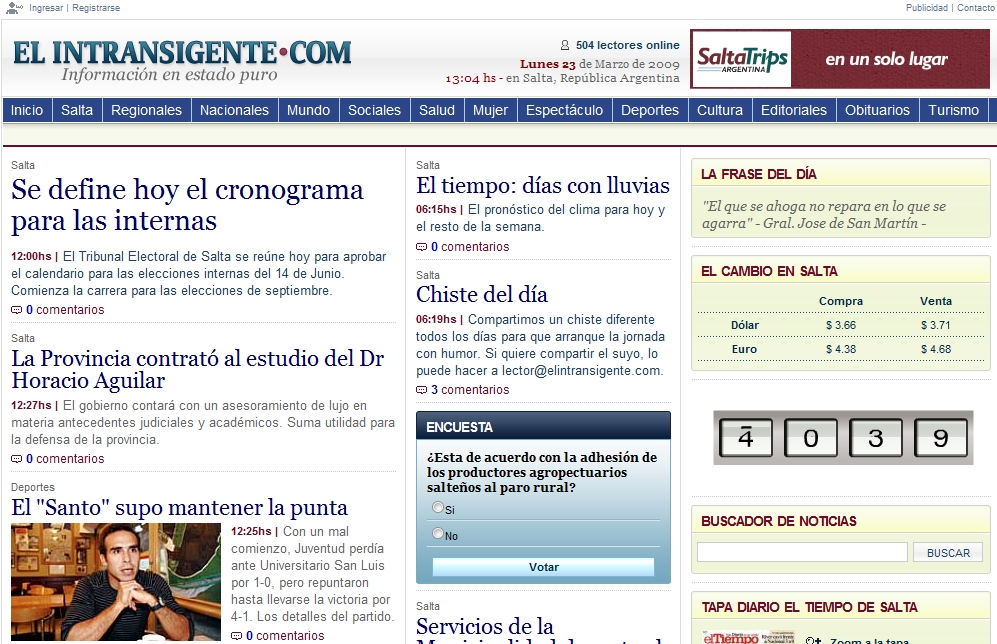 Homepage of the newspaper "El "